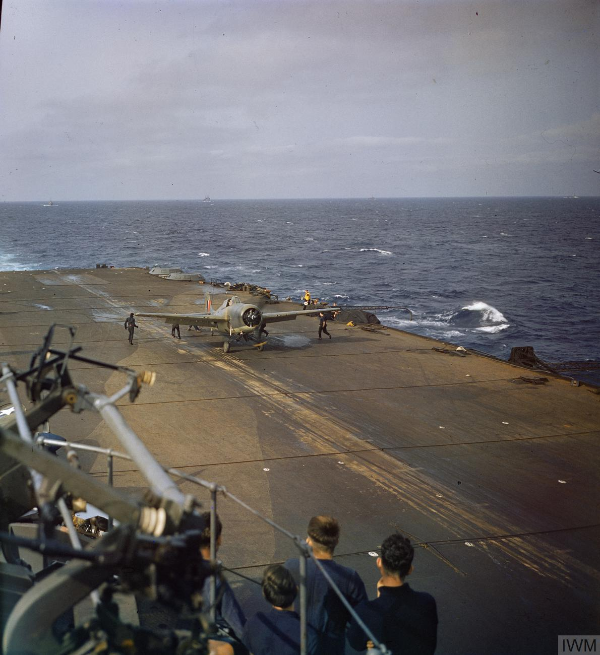 North African Operations, November 1942 A Grumman Wildcat fighter aircraft on the flight deck of the aircraft carrier HMS FORMIDABLE.